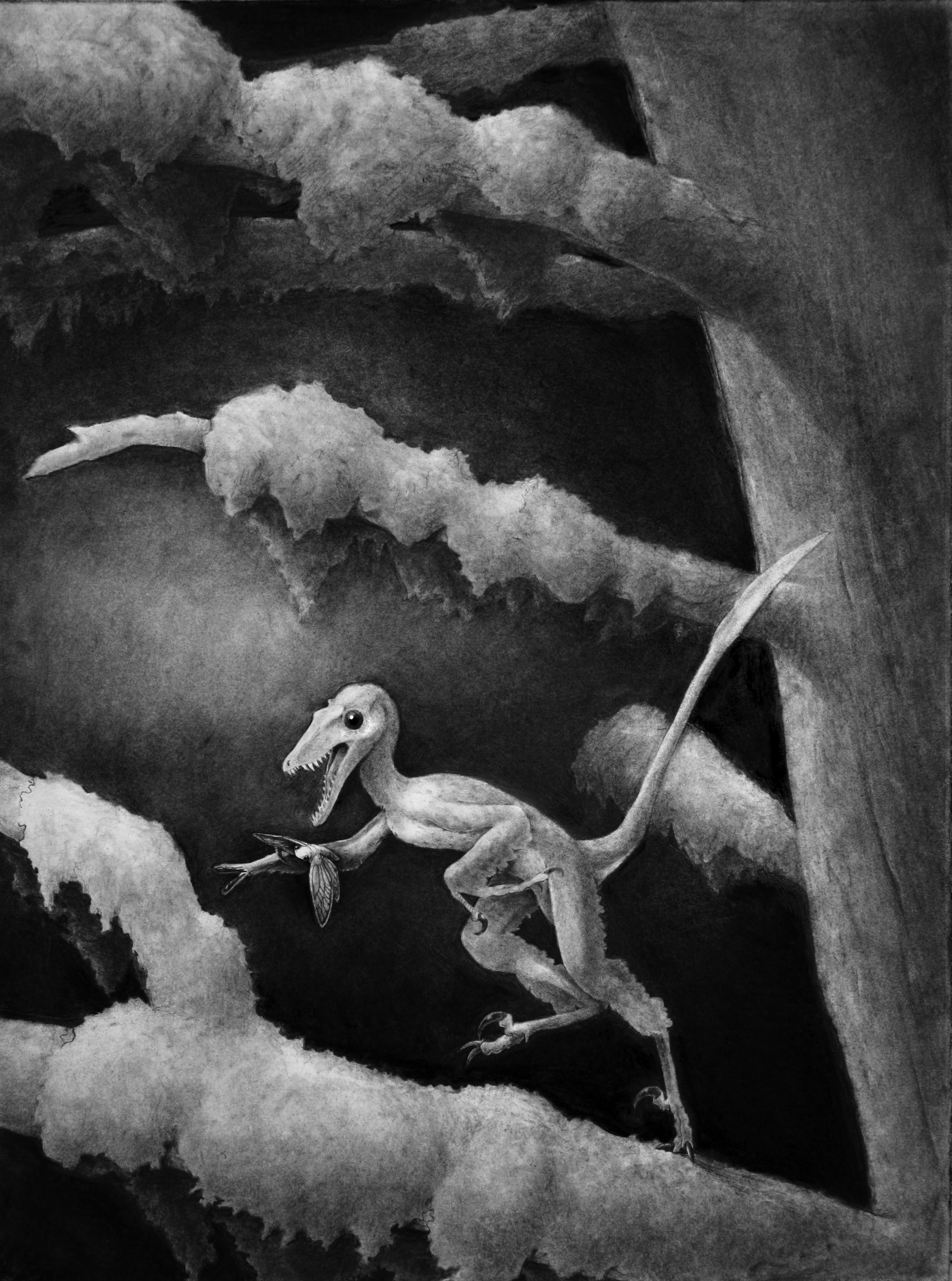 Hesperonychus elizabethae ( Dinosauria : Theropoda : Dromaeosauridae : Microraptorinae) a cat-sized dromaeosaurid from the late Campanian Dinosaur Park Formation of Alberta, Canada. Original pencil, graphite, and charcoal on paper by Nick Longrich. Additional digital editing by Nick Longrich